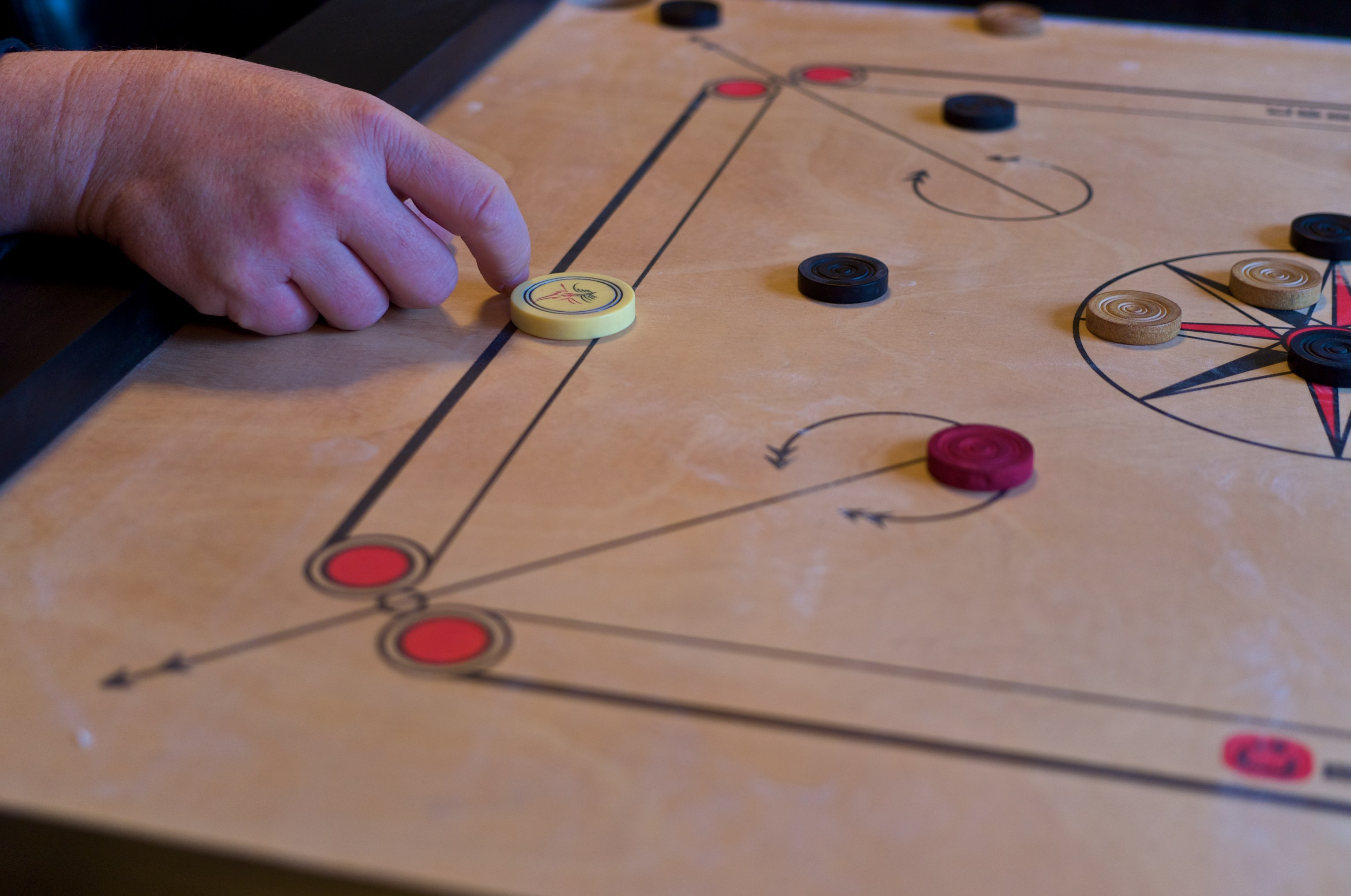 A shot in Carrom